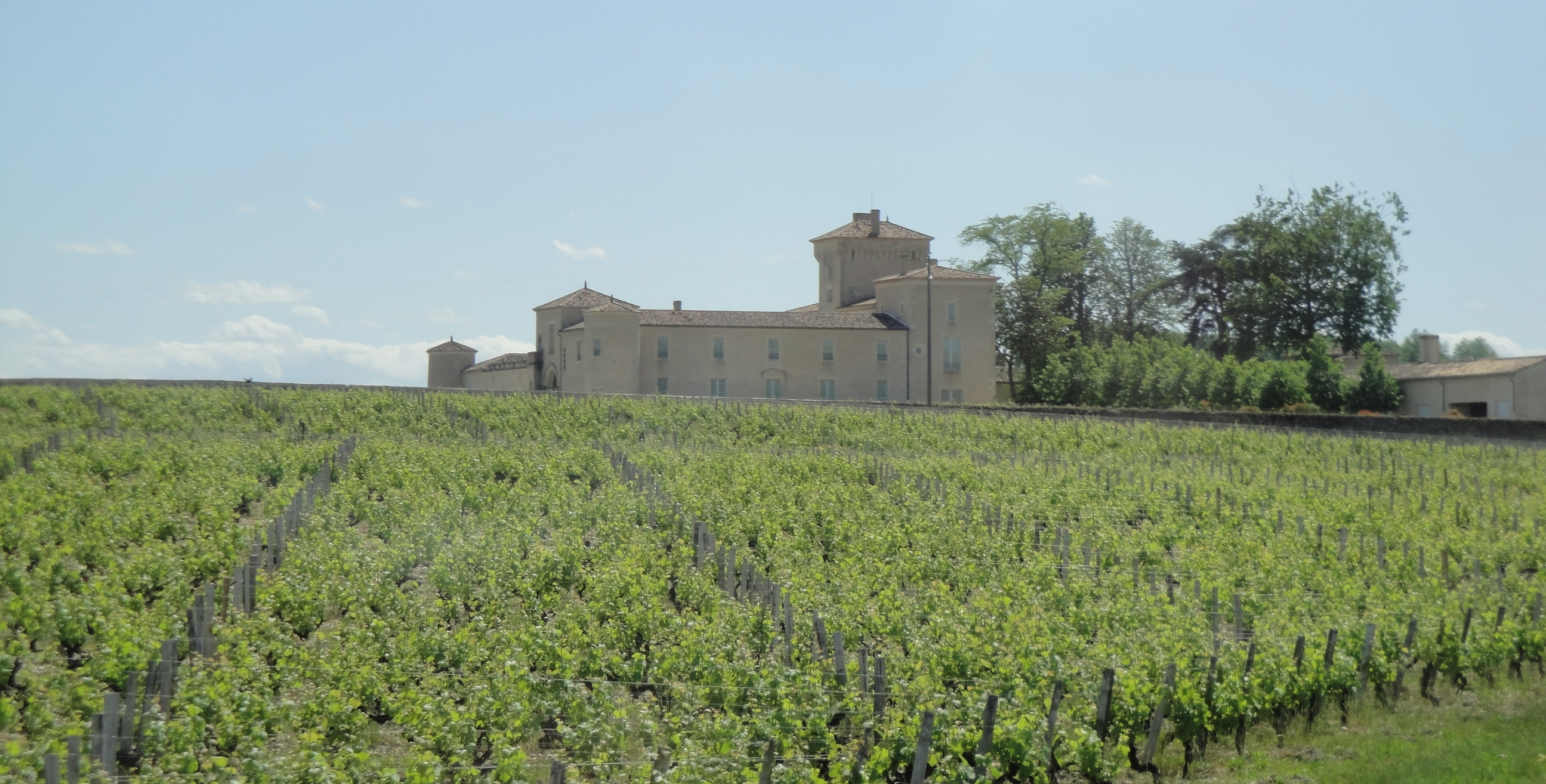 Château Lafaurie-Peyraguey and some of its vineyards as seen from the road leading up to Château Sigalas-Rabaud